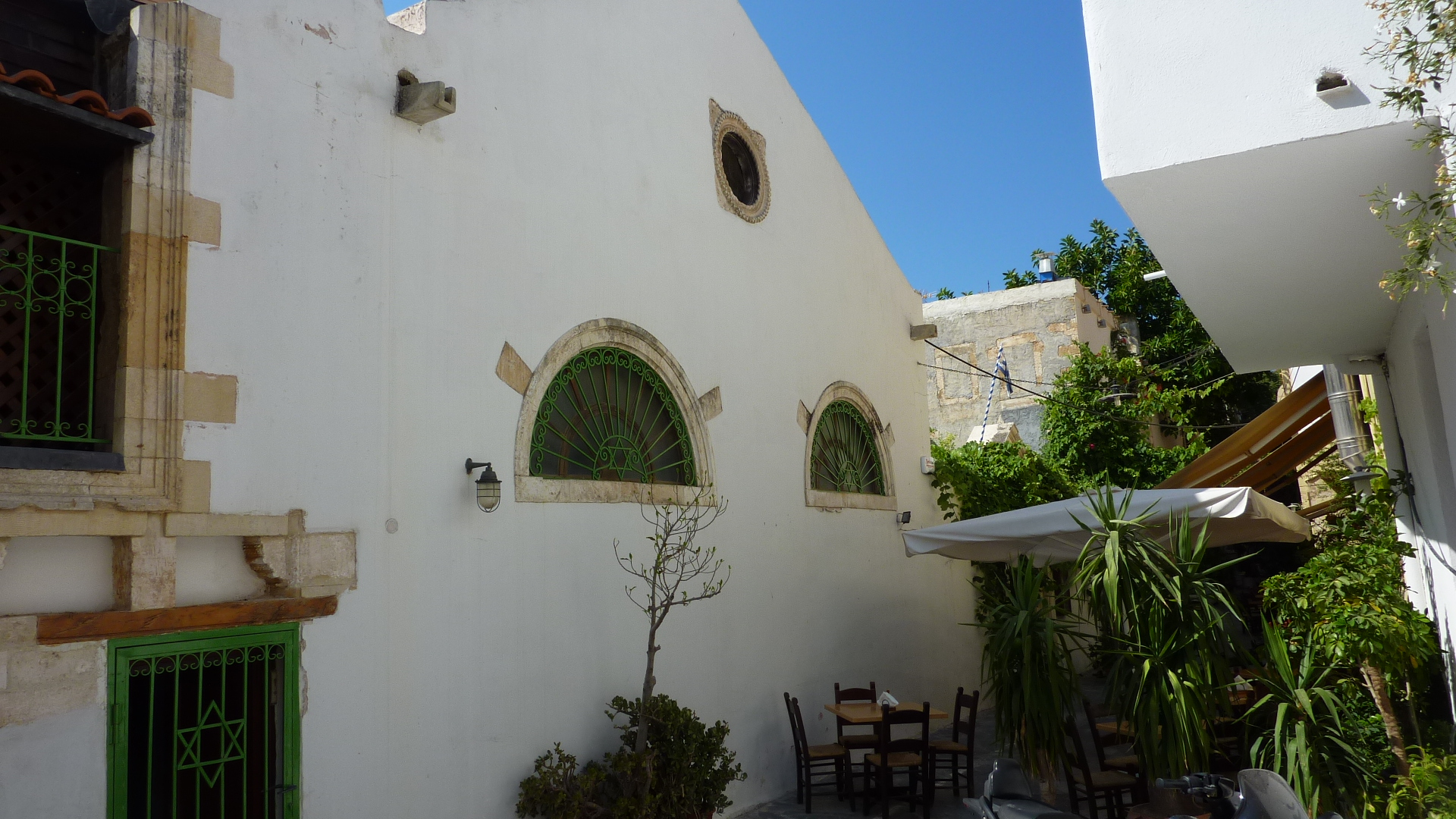 Etz-Hayyim-Synagogue in Chania